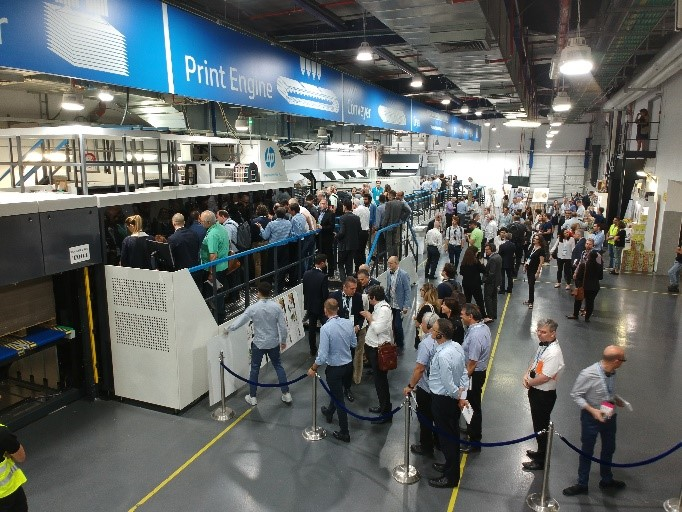 HP PageWide C500 Press international customer introduction event at HP Scitex's Caesarea site in Israel.